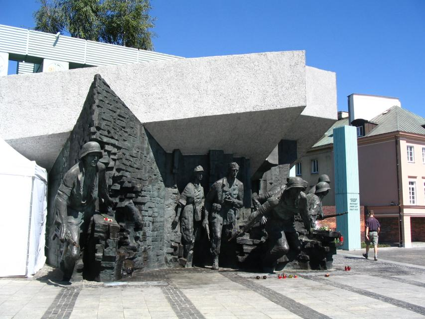 Heroes of the Warsaw Uprising monument in Warsaw, Krasiński square, erected in 1989. Author: Wincenty Kućma Head architect: Jacek Budyna Founding organization: Związek Powstańców Warszawskich (Society of Warsaw Partisans) It consists of three parts: a series of sculptures Attack alongside the "Wall of Remembrance", depicting the Armia Krajowa soldiers fighting an isolated group named Exodus, to commemorate the fighters who withdrew from Starówka area using the sewers an original sewer crate on the other side of the square marking the place where one of the sewer communication routes had its starting points. See also: :Image:Uprising monument2.jpg